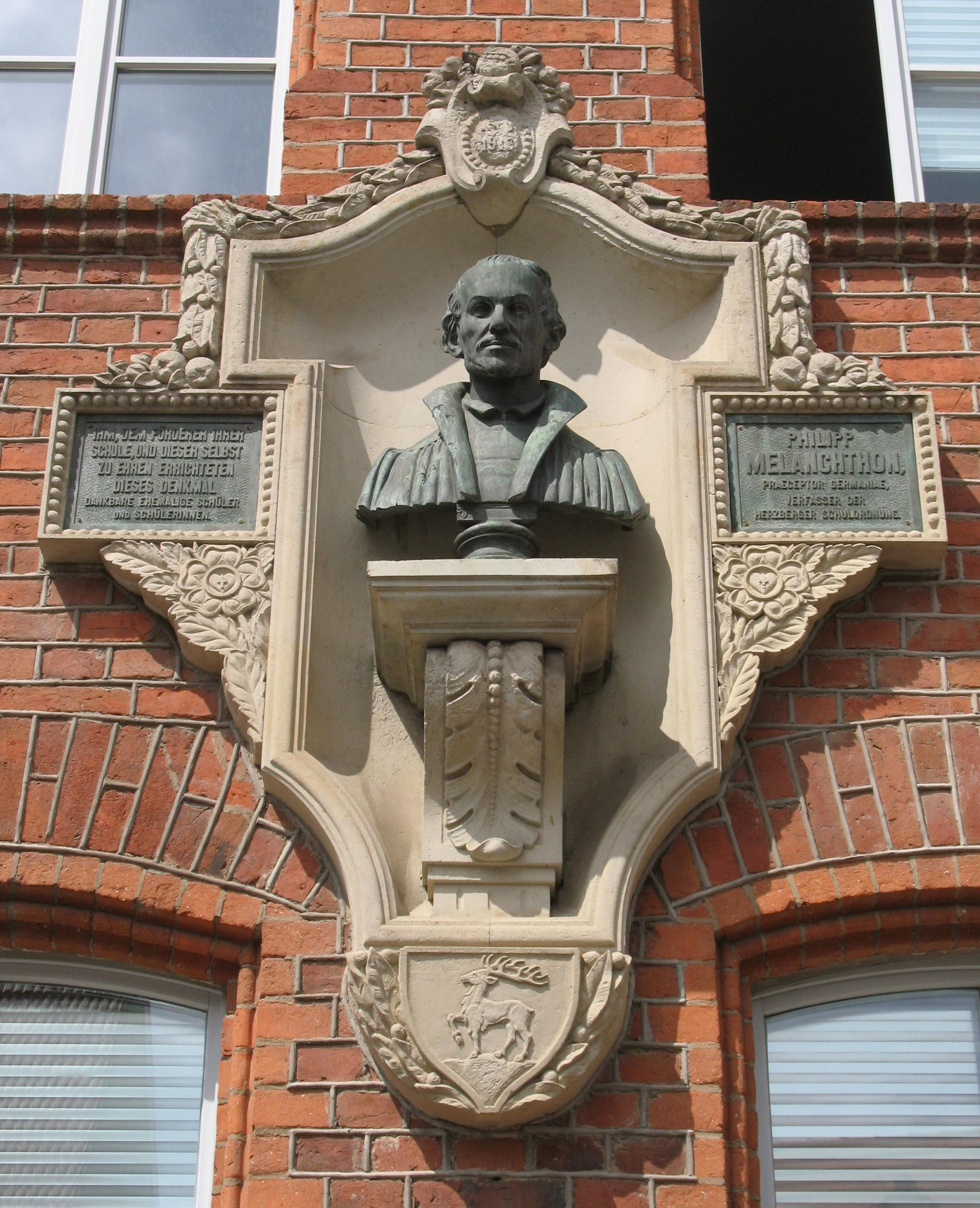 Memorial tablet to Philipp Melanchthon in Herzberg in Brandenburg, Germany